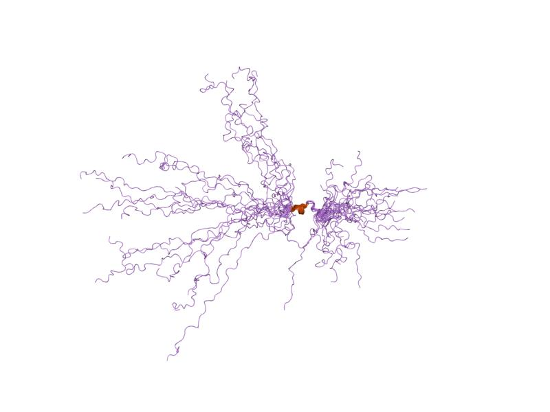 Cartoon representation of the molecular structure of protein registered with 1kkd code.